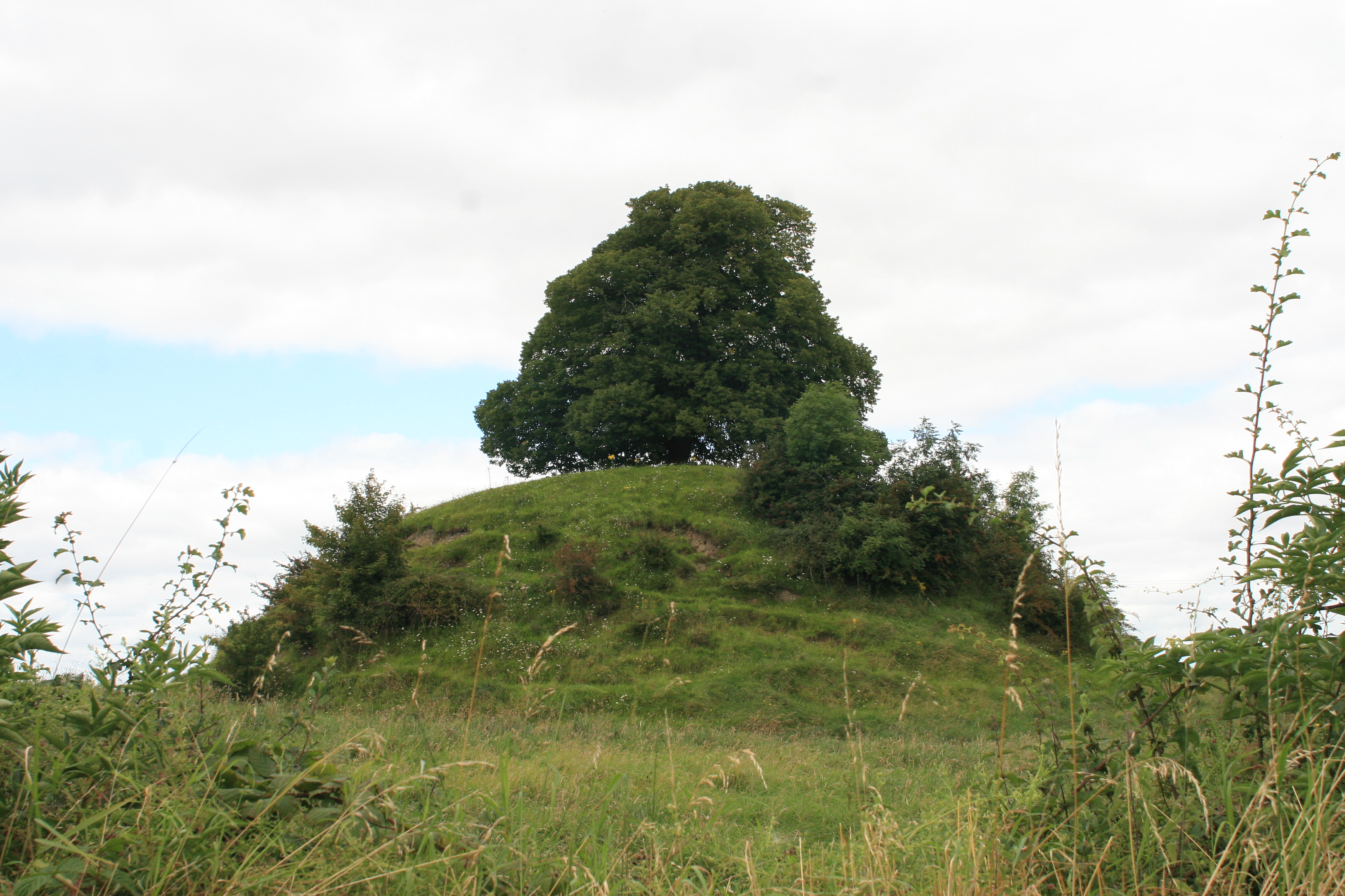 Motte erected by Hugh de Lacy. A close informational signpost reads: This Motte was erected under the direction of Hugh De Lacy when Clonard was occupied by the Normans circa 1177. In its original form the motte was crowned with a bailey or tower and surrounded by defensive fortifications. The lime tree planted on top during the 19th century makes this motte a well known landmark in the area.